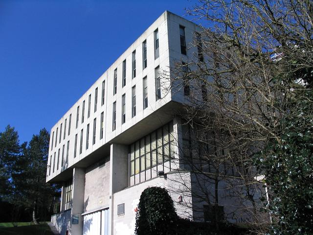 Proudman Oceanographic Laboratory, Bidston Hill